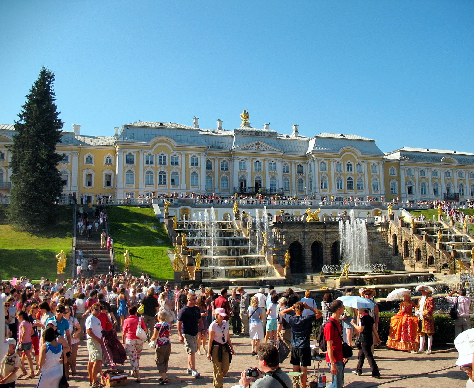 Petergof. Peterhof Grand Palace